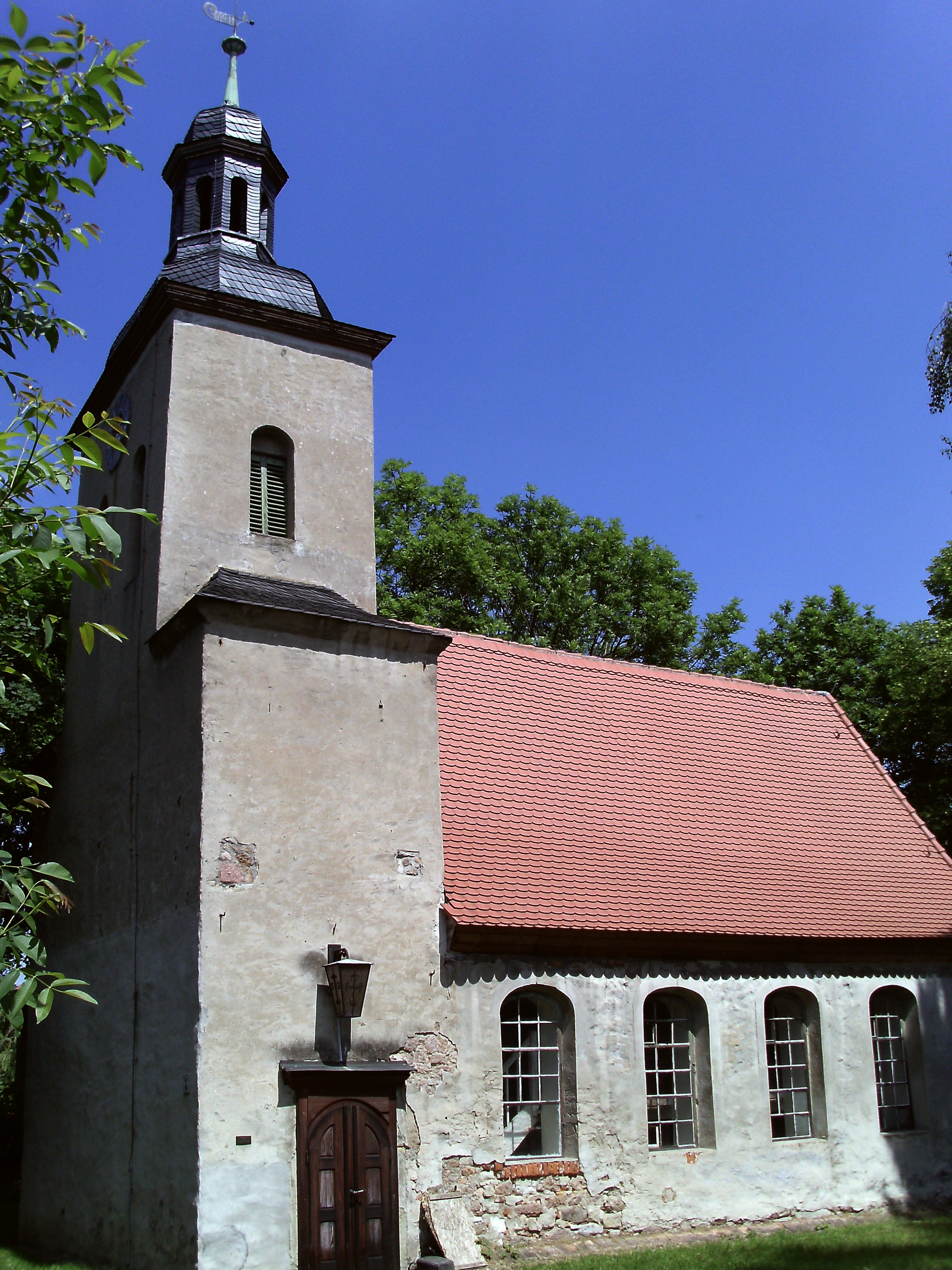 St. Nicholas Church in Büschdorf (Halle/Saale, Saxony-Anhalt) from the south